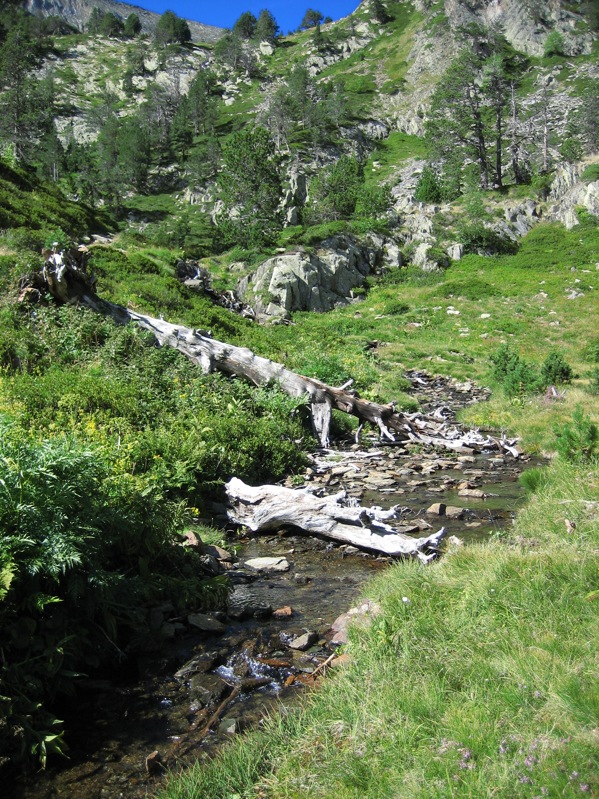 Riu de Coma Pedrosa river, Arinsal, La Massana, Andorra